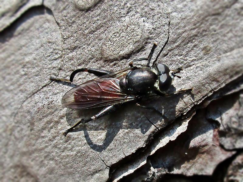 Chalcosyrphus piger (Chalcosyrphus sp.) male, Gennep, the Netherlands